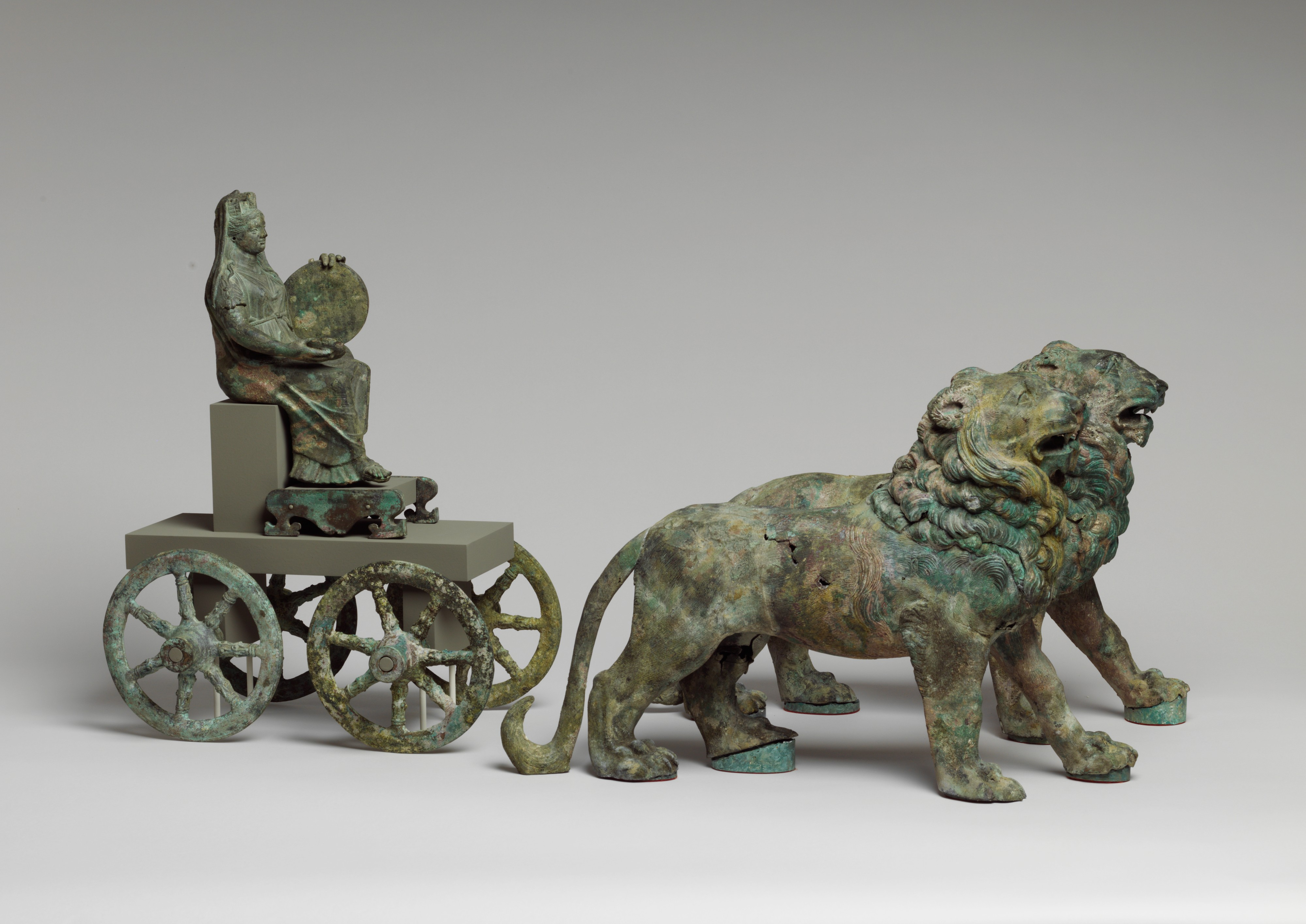 Roman; Cybele on a cart drawn by lions; Bronzes